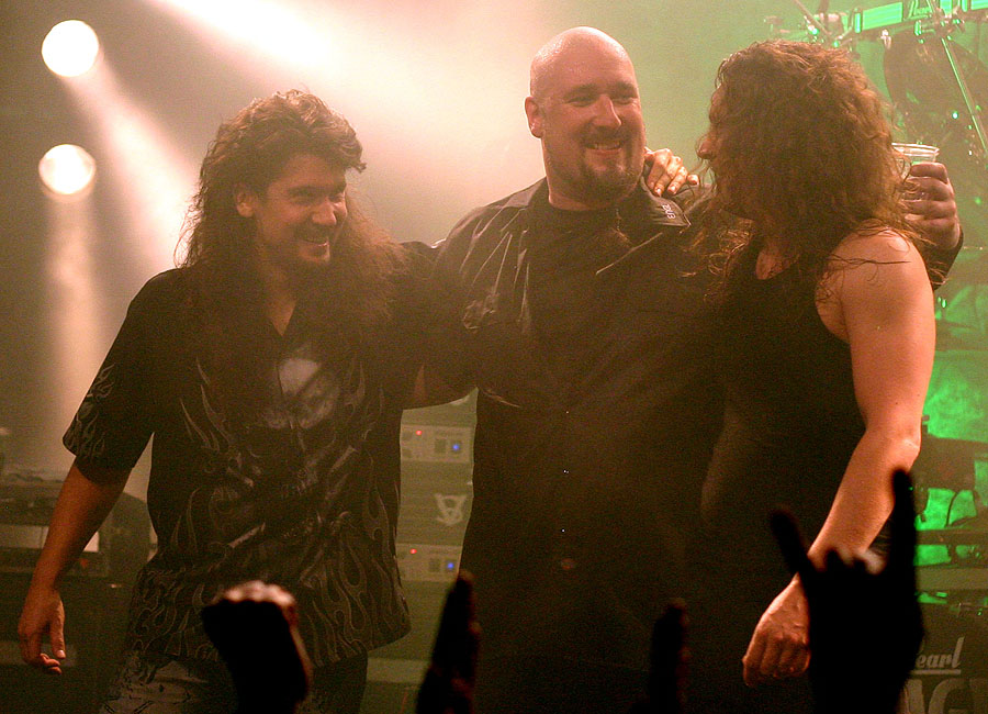 Rage after a Concert at the "Zeche" Bochum